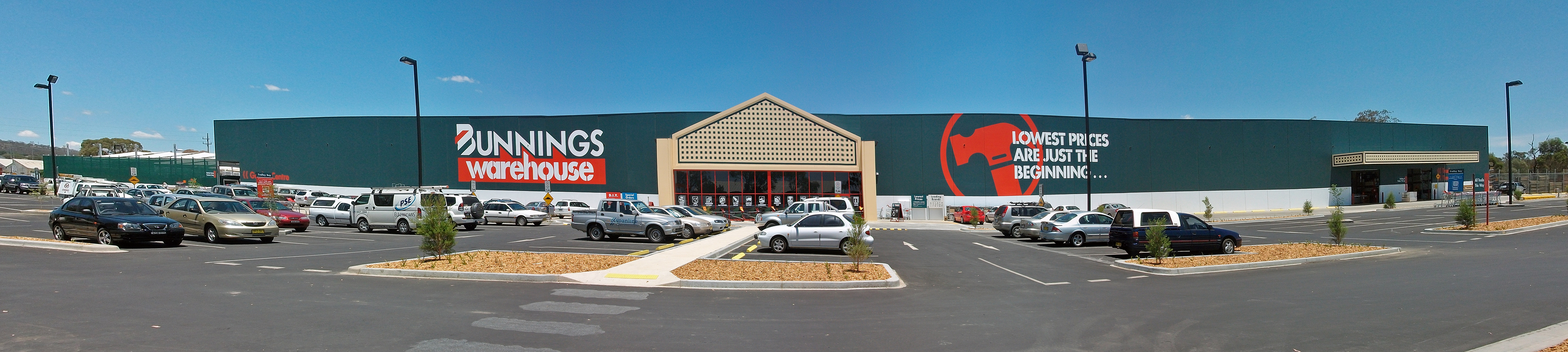 Bunnings Warehouse Wagga Wagga panorama.